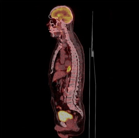 Adenocarcinoma distal in esophagus.